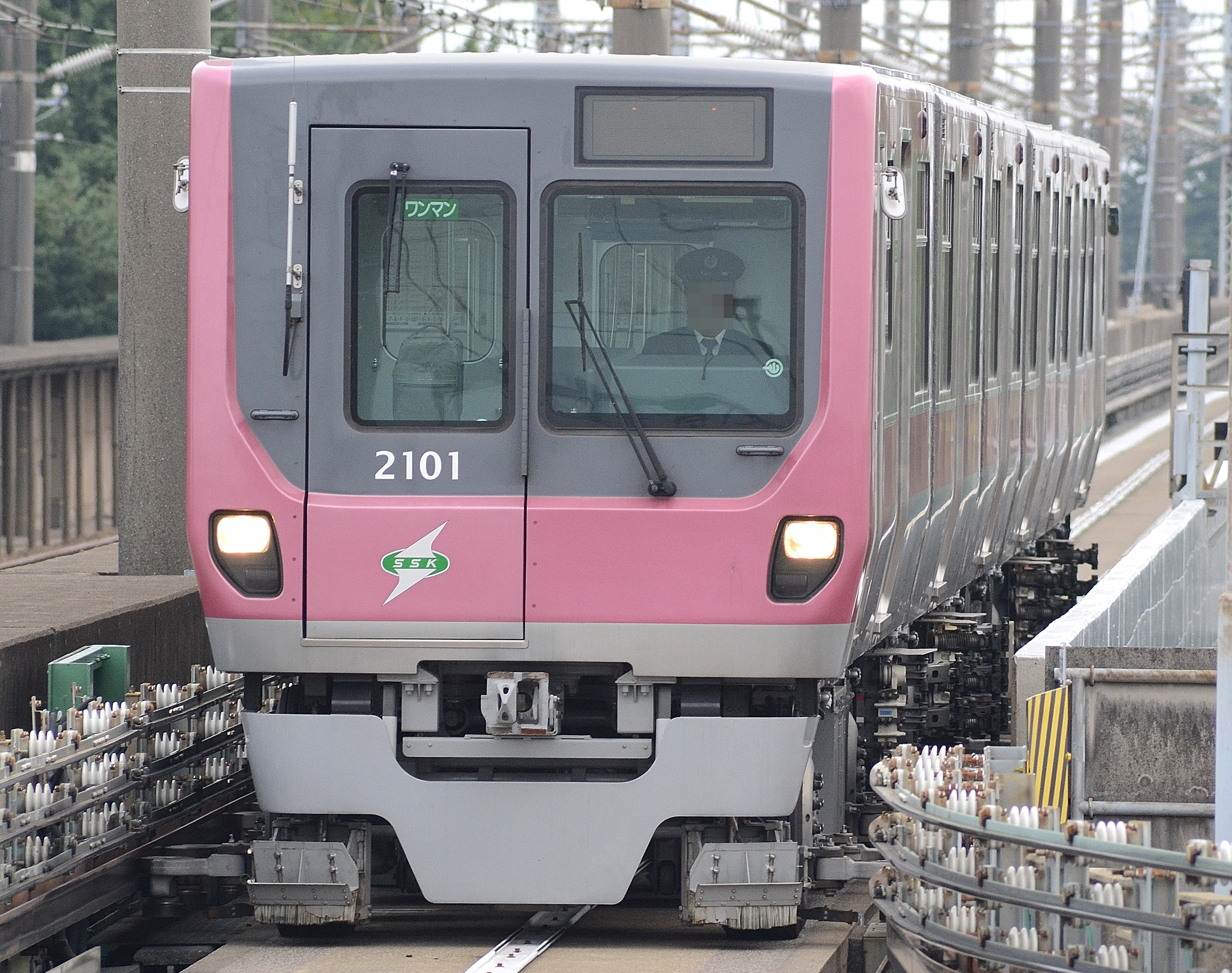 Saitama New Urban Transit 2000 series set 2101